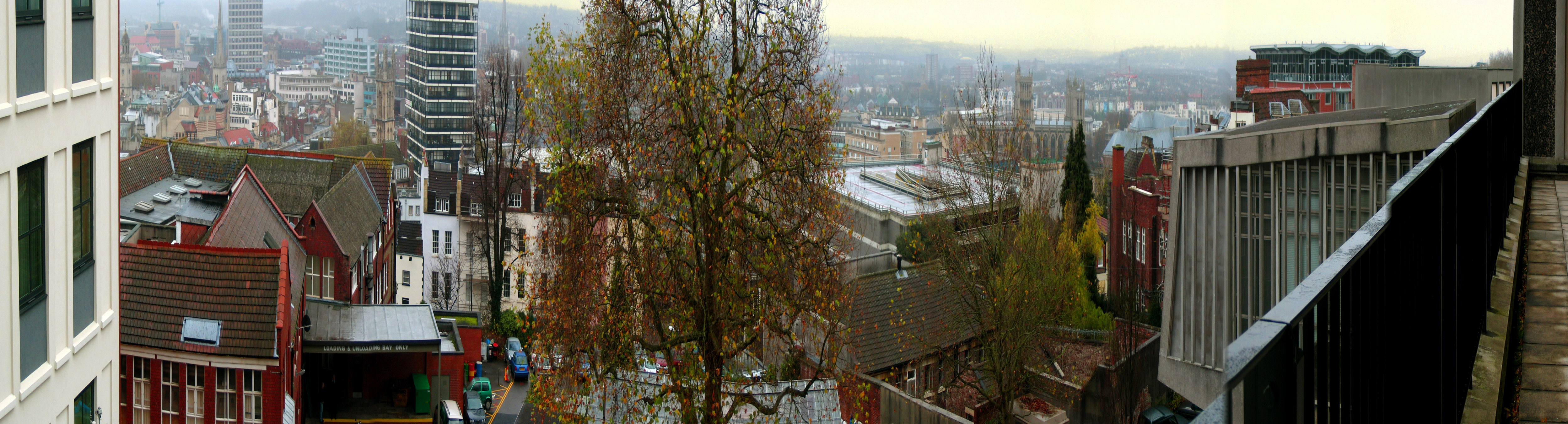 The centre of Bristol, UK as seen from the University